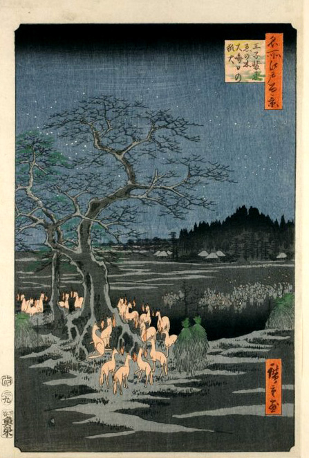 100 Views Of Edo - 118. Fox Fires on New Year's Eve at the Garment Nettle Tree at Oji; "Fox Fires on New Year's Eve at the Garment Nettle Tree at Oji, a woodblock print by Hiroshige from his "One Hundred Famous Views of Edo" series."